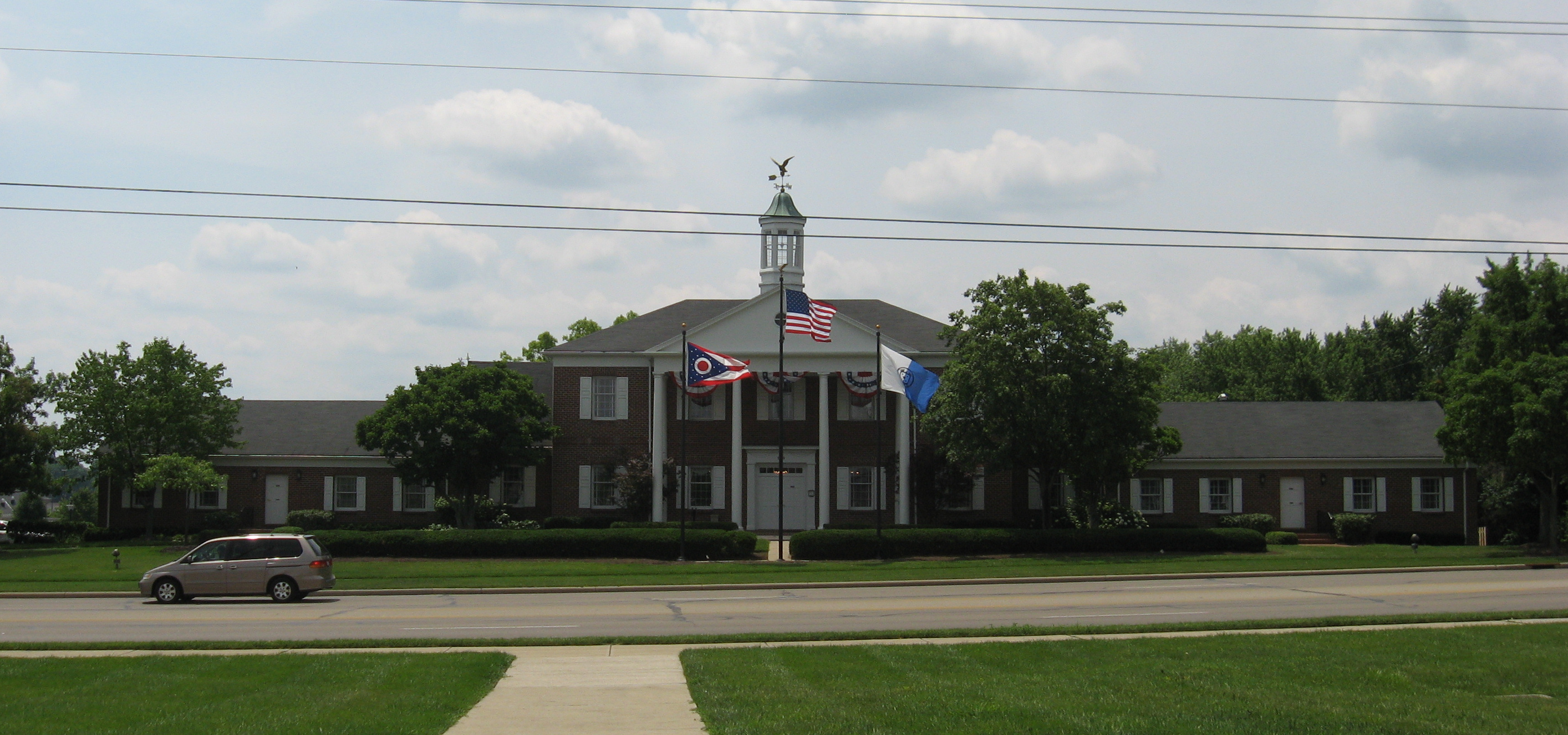 The Centerville Municipal Building, administrative center of the City of Centerville, Ohio (Centreville, Ohio, USA)